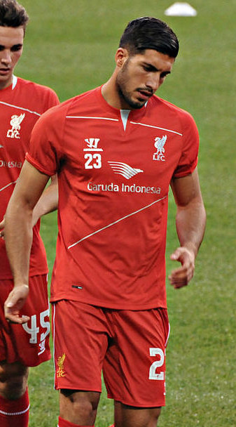 German football player Emre Can during pre-game warm-up before Liverpool FC - AS Roma match at Fenway Park, Boston.